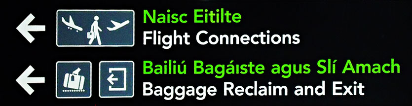 Bilingual signage (Irish and English) in Dublin Airport, Ireland.